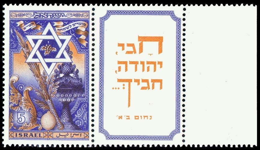 Joyous Festivals 5711 stamp - 5 mil. Inscription on tab: "O Judah, keep thy solemn feasts,..." Nahum II 1.